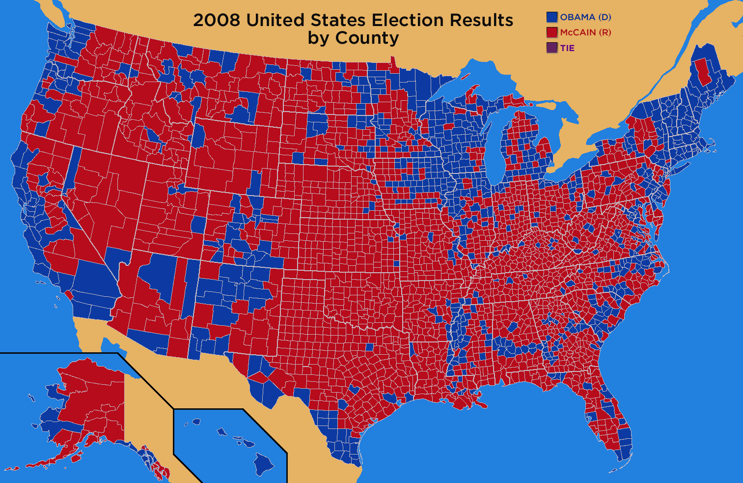 Results by county of the 2008 general election in the United States.